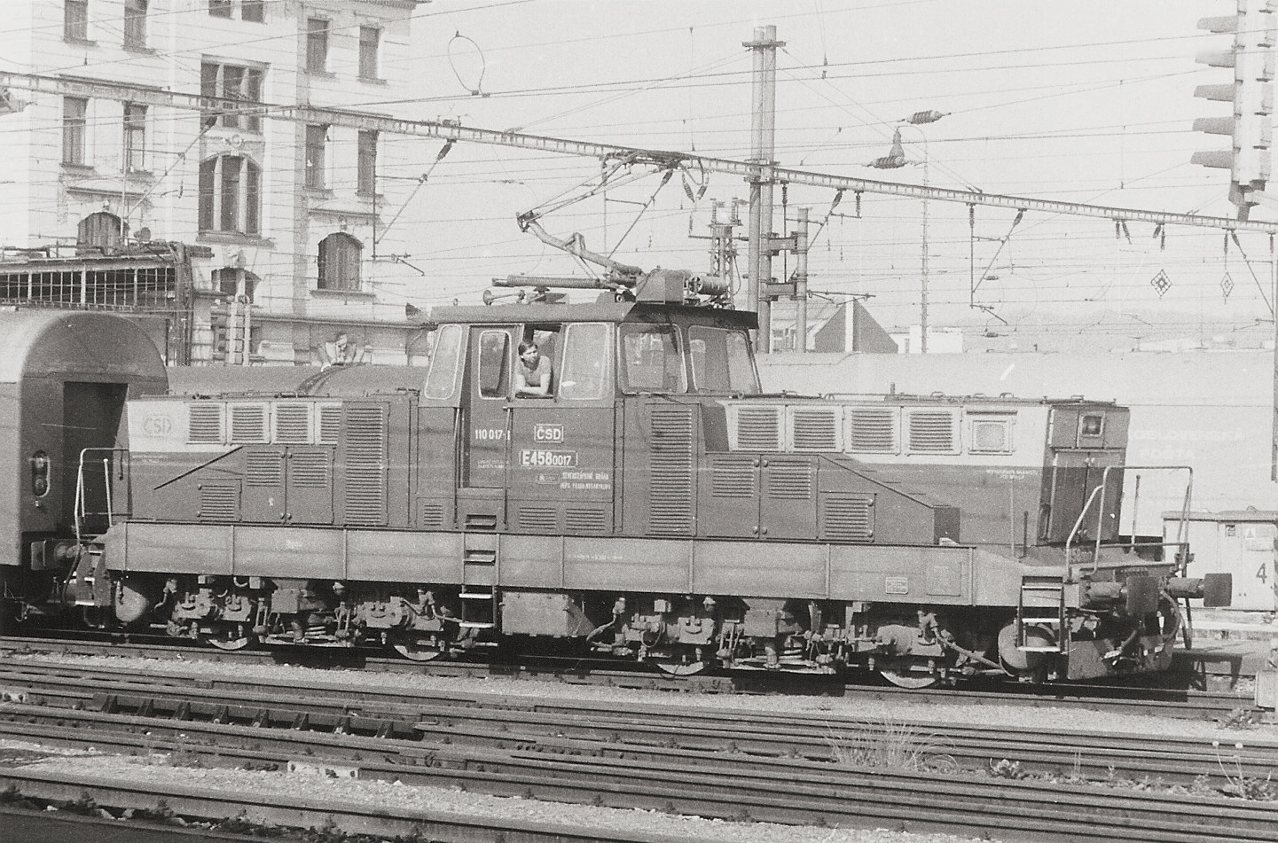 ČSD E 458.0017 - 110.017 at Prague main station